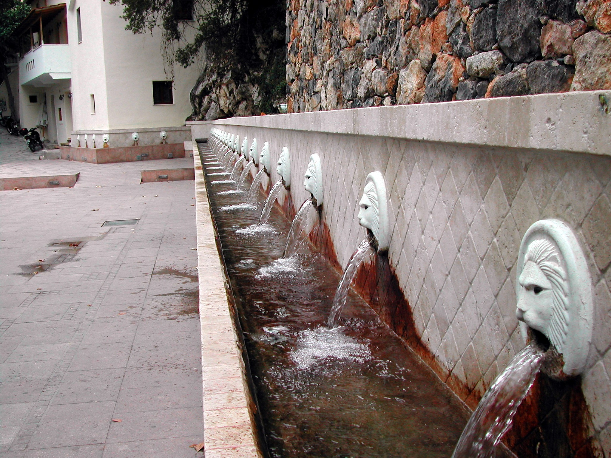 View on the 25 Lionheads in Spili Crete